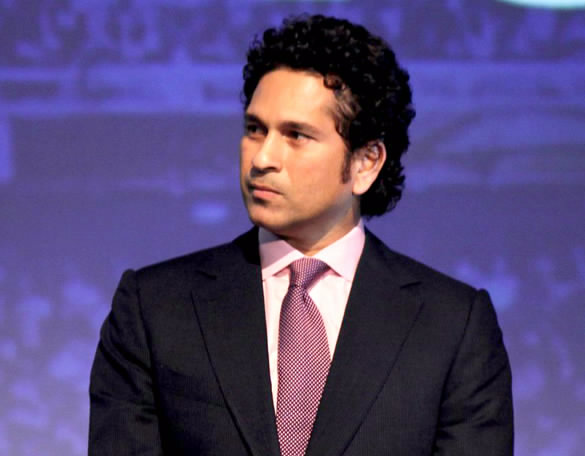 Sachin Tendulkar at the launch of 'Hero Indian Super League'